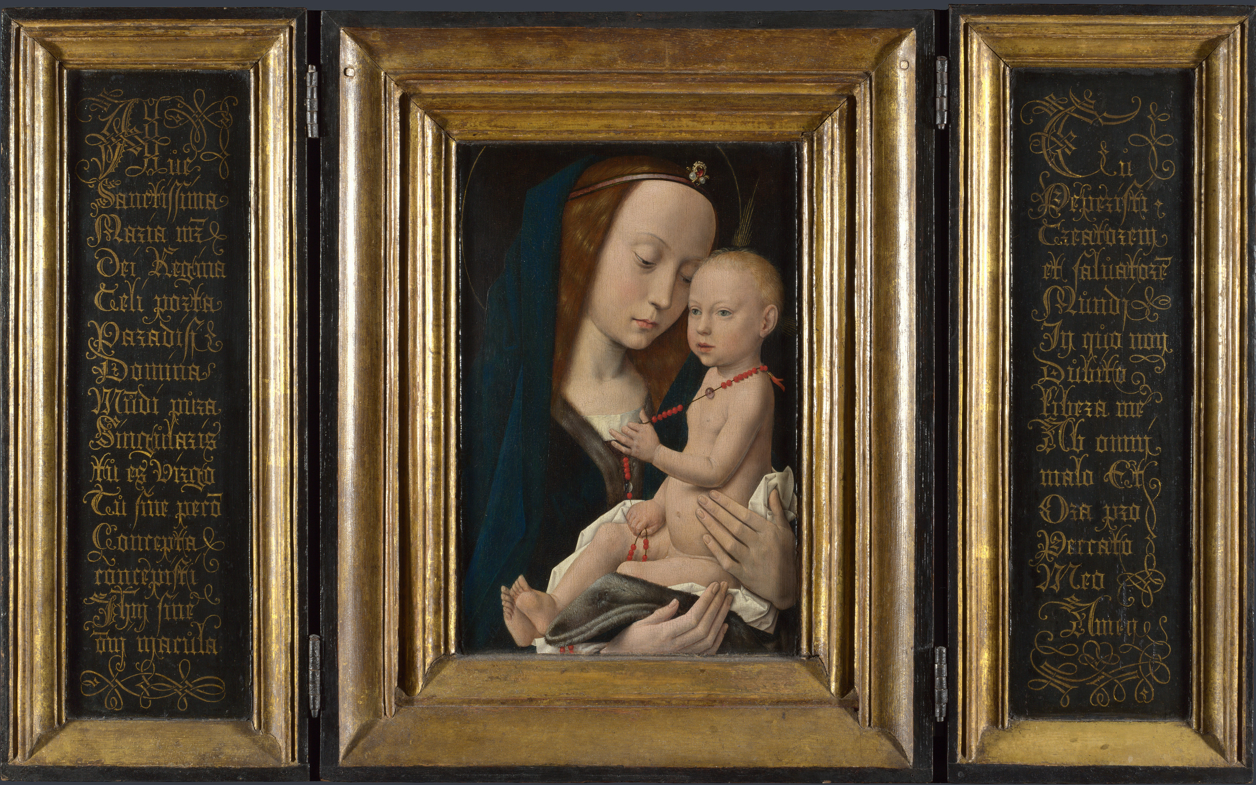 Key facts